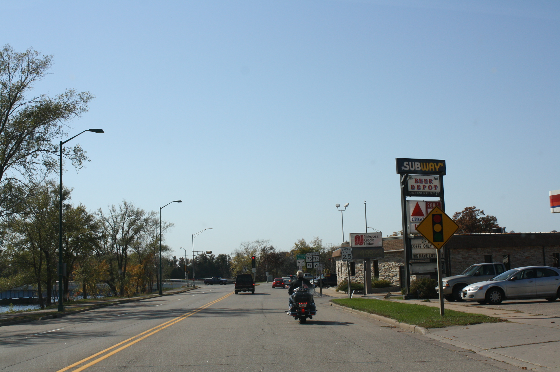 Looking south in downtown Nekoosa, Wisconsin at the east terminus of Wisconsin Highway 173